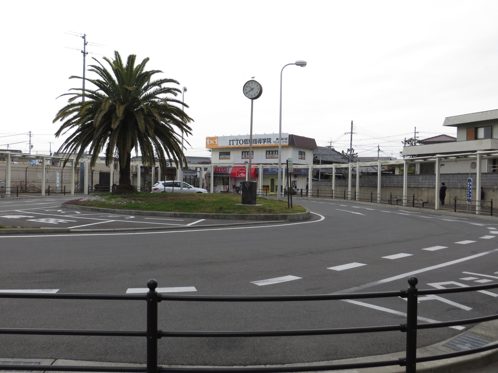 Station square from Higashi-Neyagawa Station, Katamachi Line.